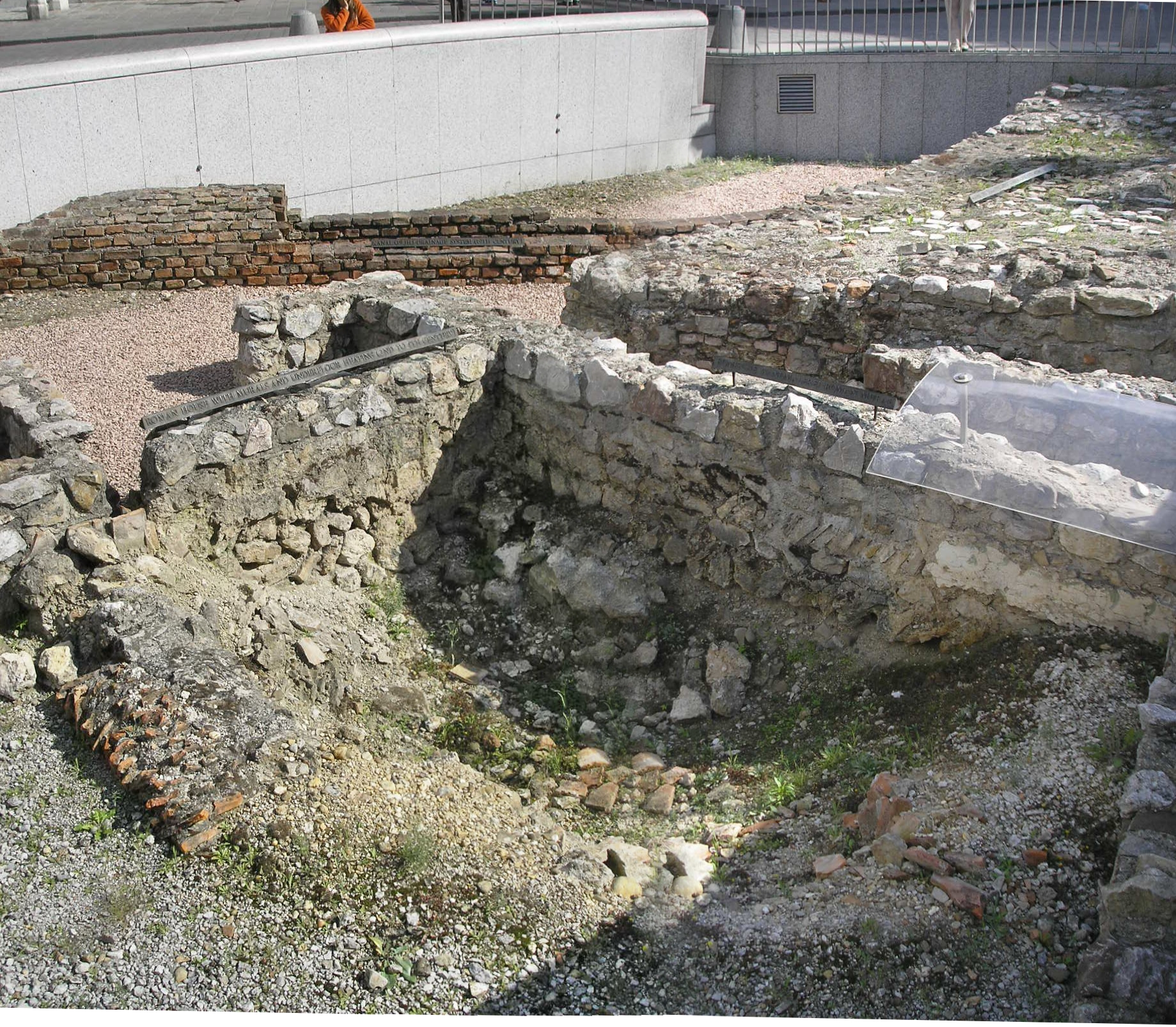 Roman ruins of Vindobona at Michaelerplatz in Vienna.